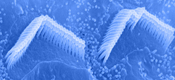 Scanning electron microscopy shows the stair-step pattern of stereocilia.